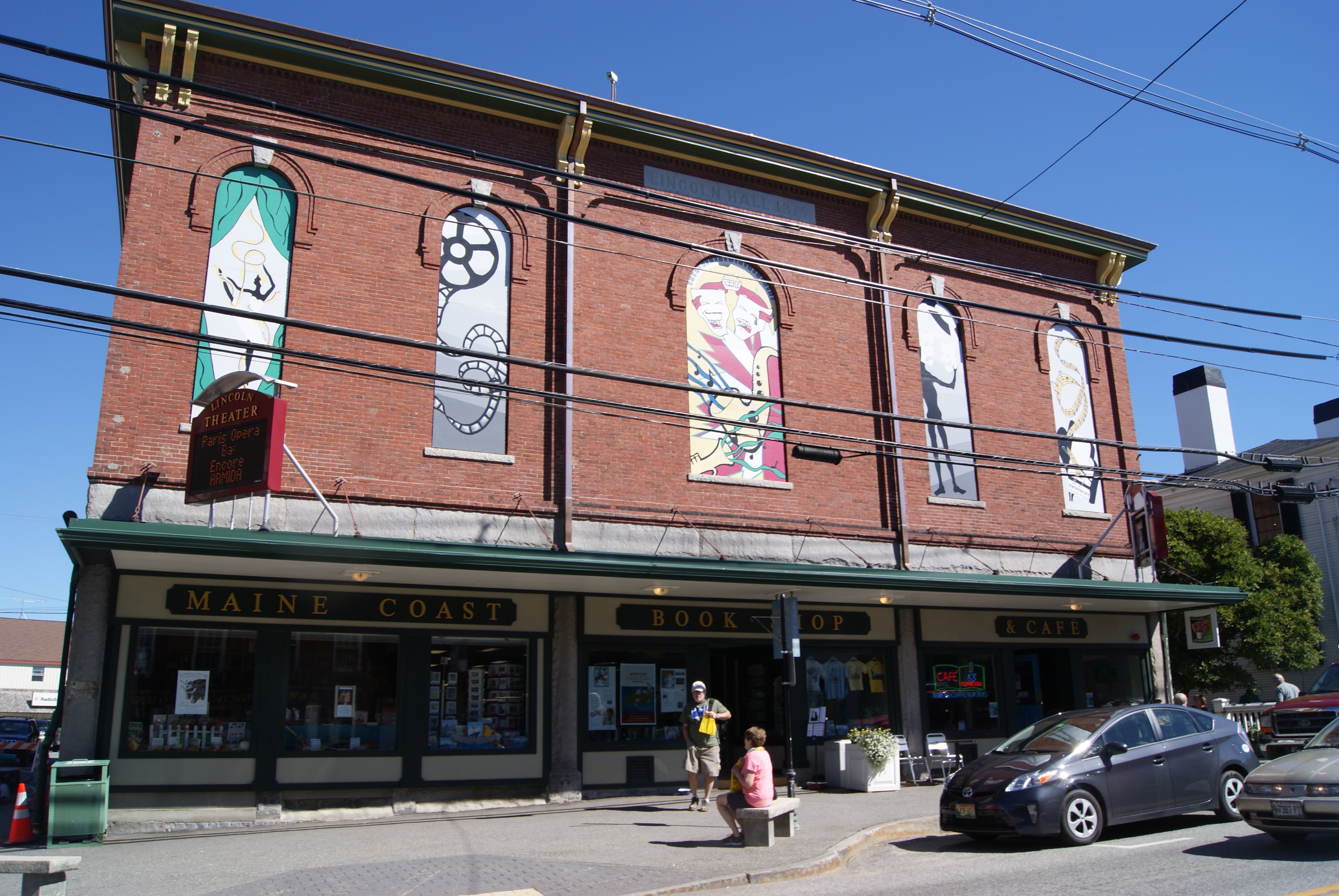 Maine Coast Bookshop at 158 Main Street, Damariscotta, Maine, USA. It shares the building with Lincoln Theater (upper level).